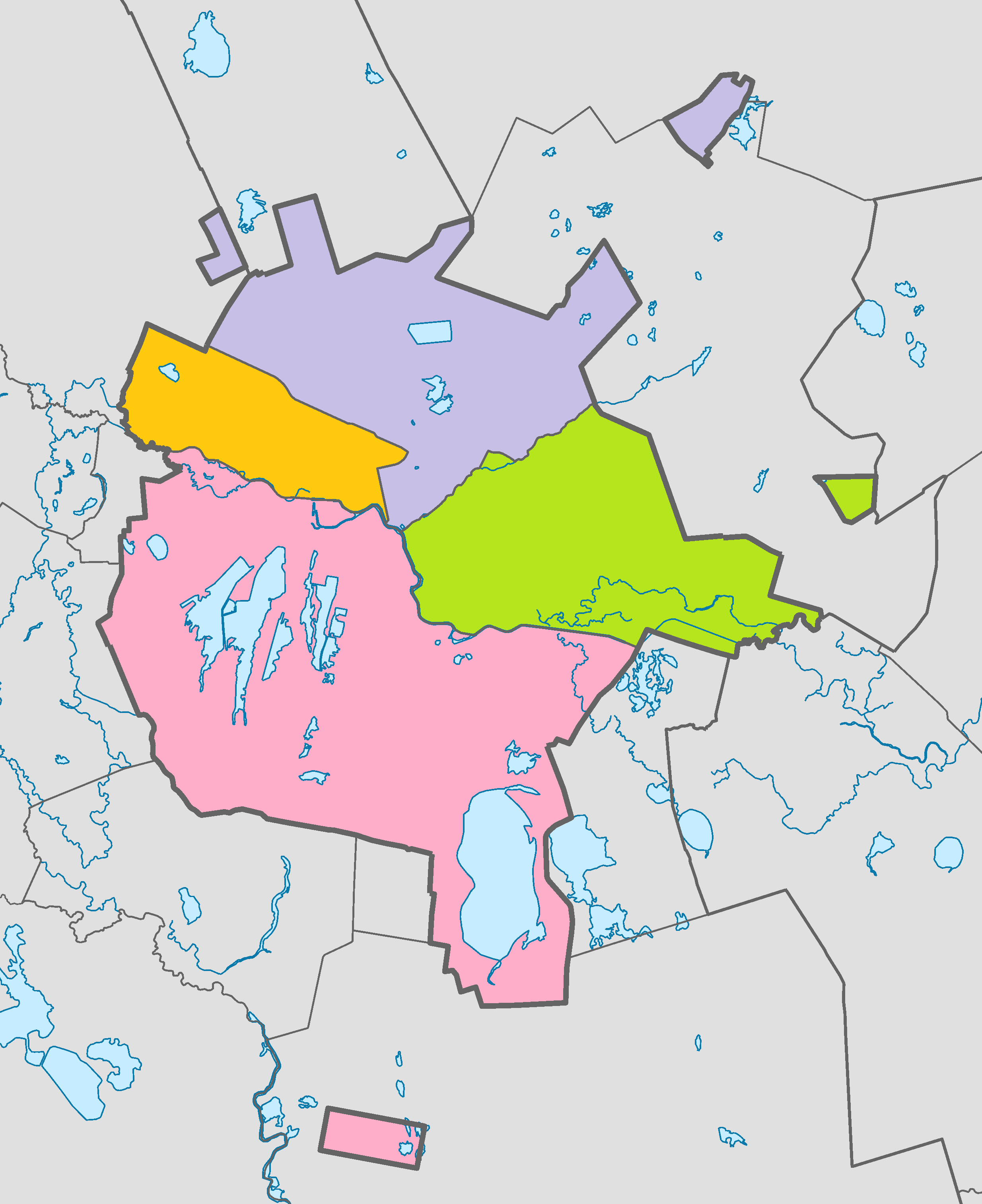 Nur-Sultan City (capital of Kazakhstan) districts: orange - Saryarka District; green - Almaty District; pink - Yesil District; violet - Baikonyr District